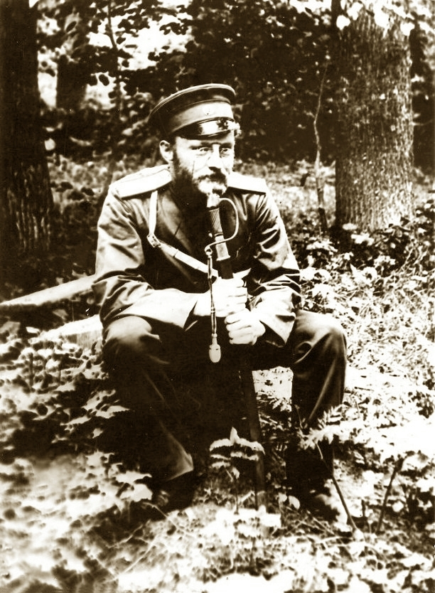 Vikenty Veresaev as a medical officer of the field hospital by the active army in the years of the Russian-Japanese War. Photo. Manchuria, 1904-1905